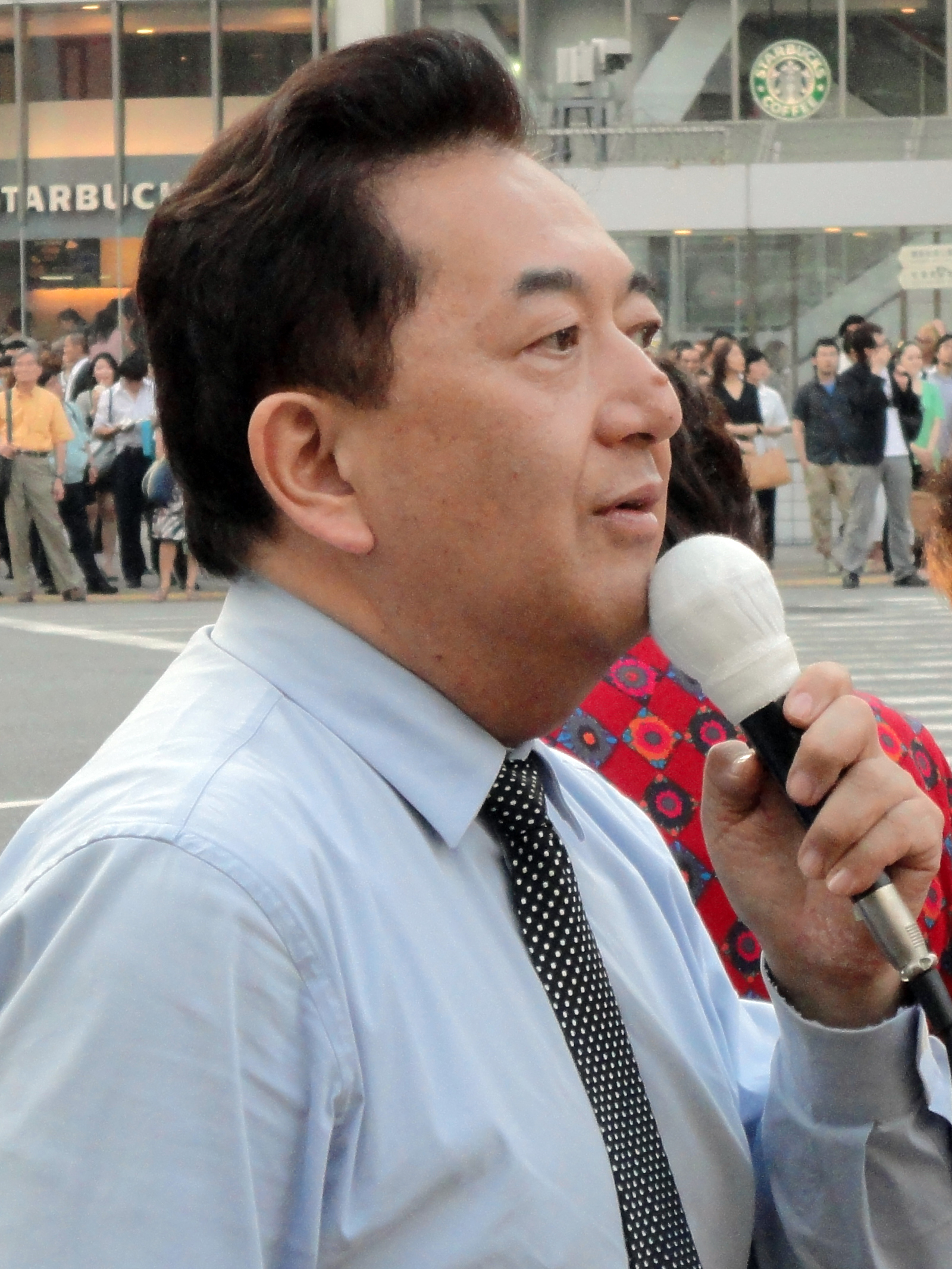 Japanese politician Yasuo Tanaka in Shibuya, Tokyo